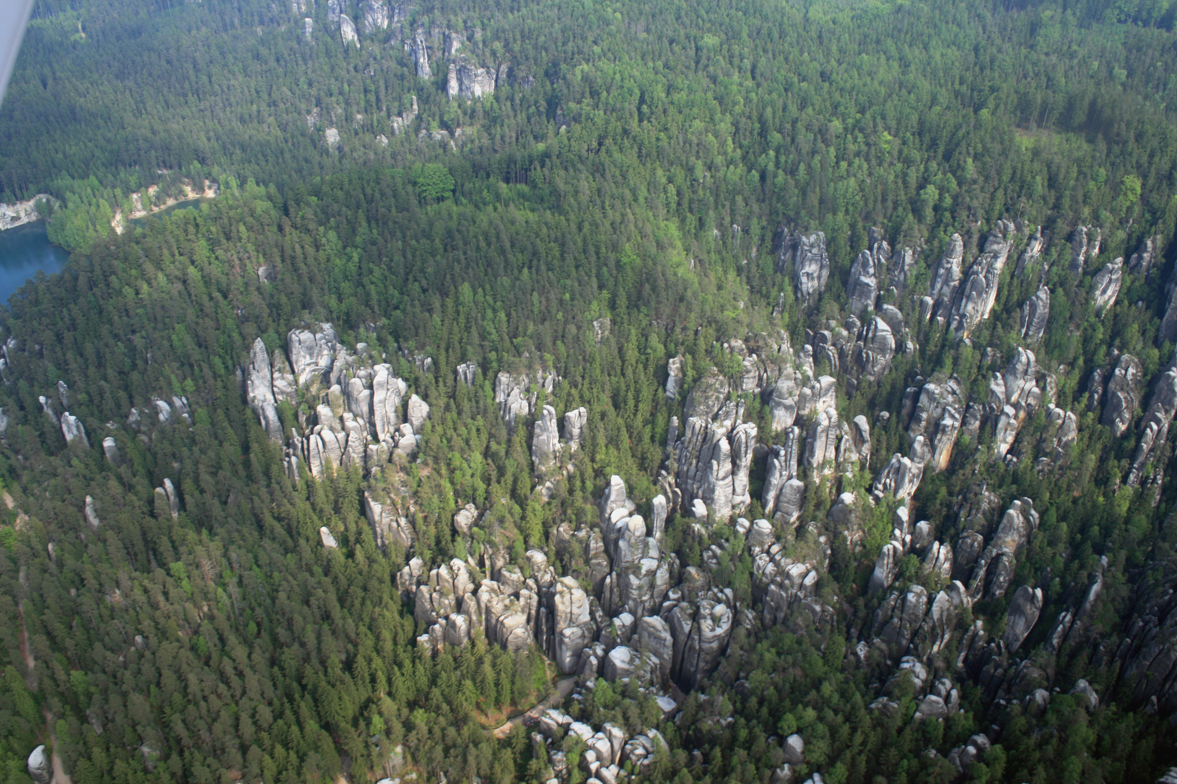 Part of Adršpach-Teplice Rocks from air, eastern Bohemia, Czech Republic